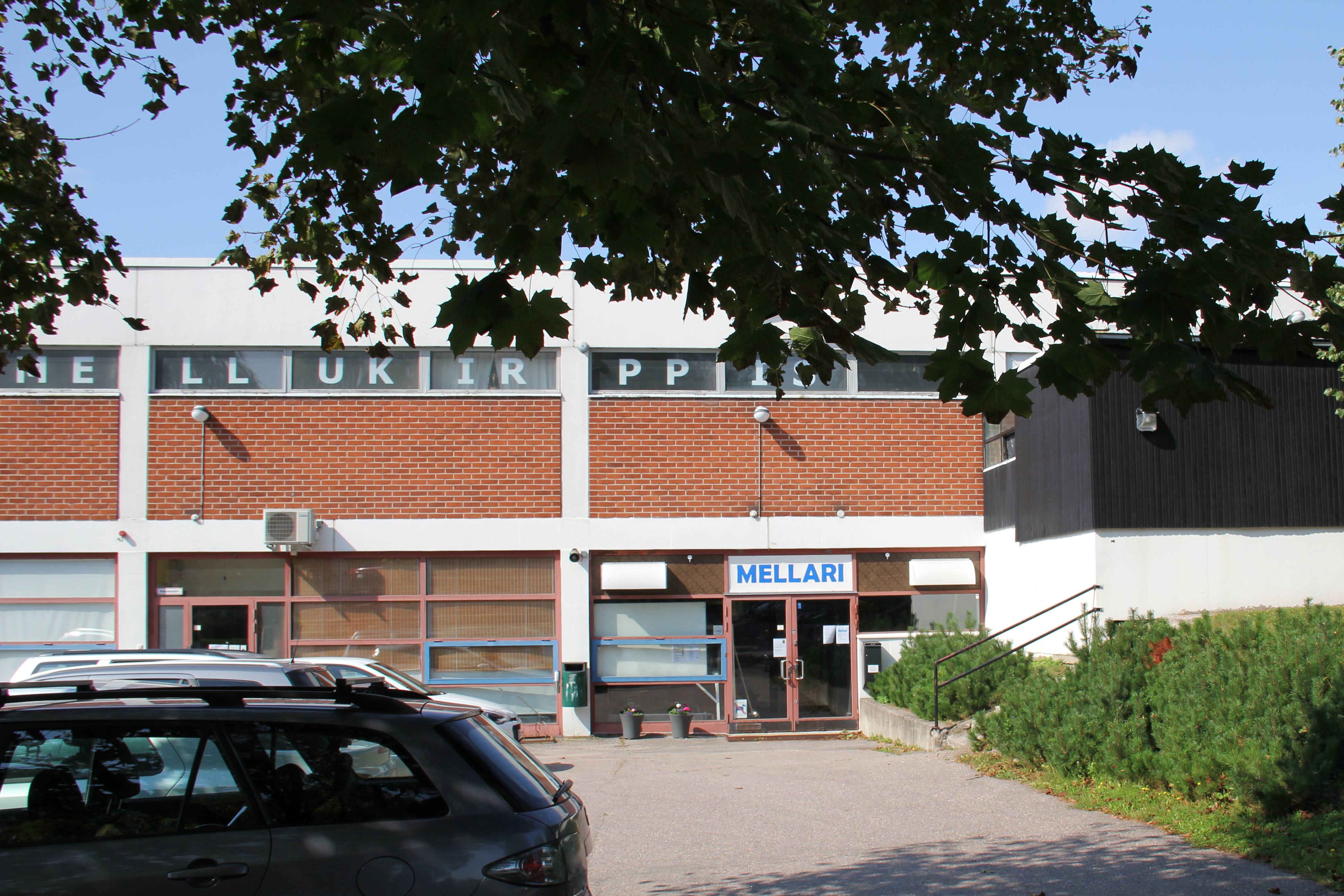 Mellari, Mellunmäki youth center for culture and recreation, Helsinki, Finland.